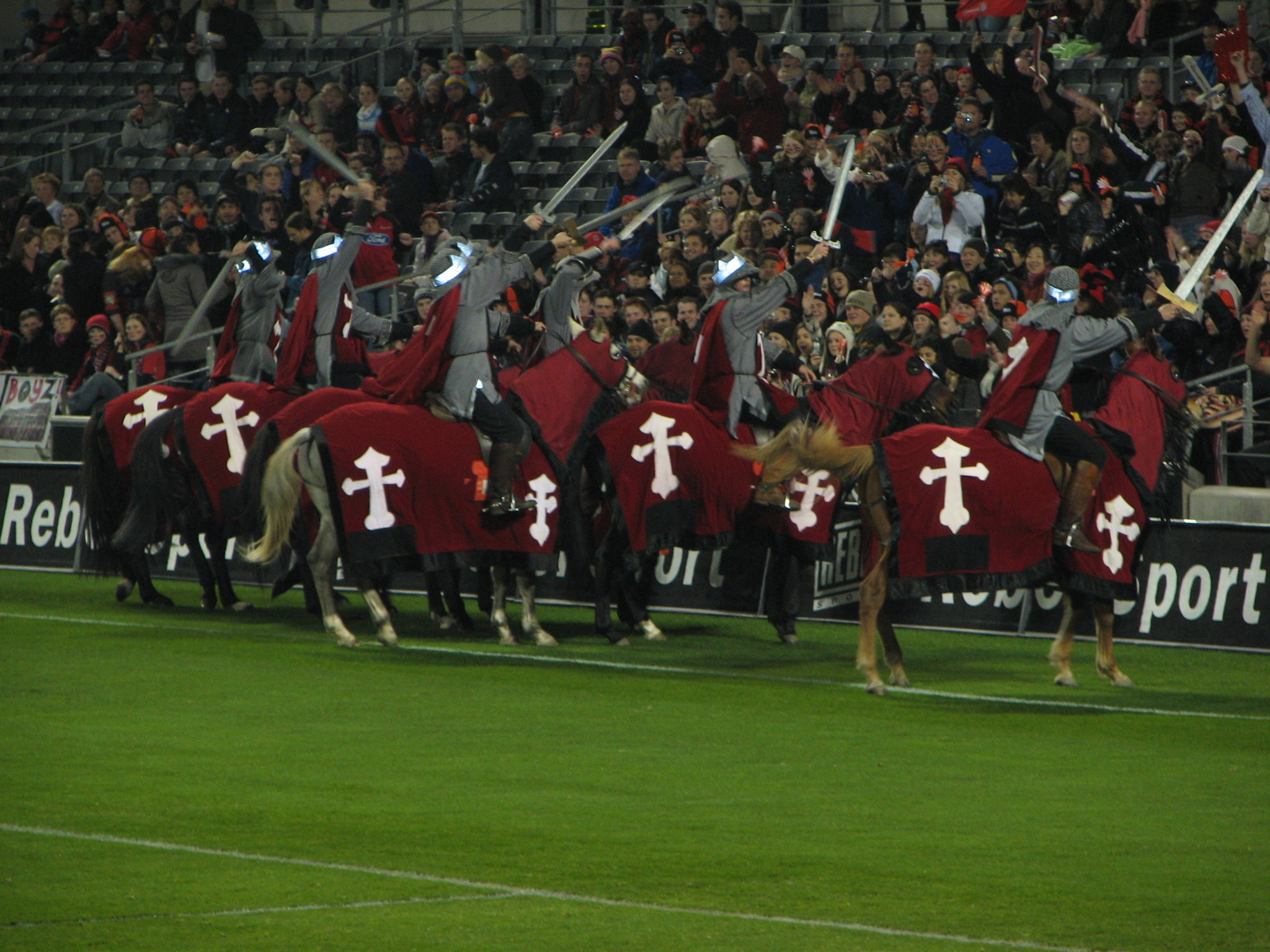 My own work,taken at Jade Stadium, Christchurch, New Zealand. Rugby Super 14 Semi-Final, Crusaders vs Bulls, 20th May 2006. Crusaders won 35-15. Photo taken by Maree Reveley (aka Somerslea)